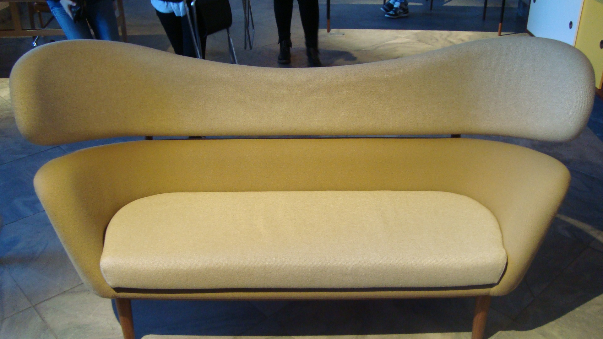 The baker couch from 1951. Design by Finn Juhl.